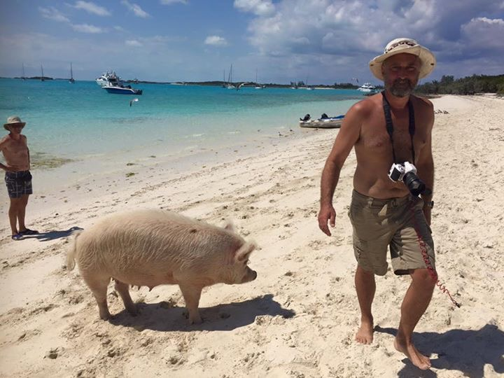 Tourists visit Pig Beach by dinghy to take photos